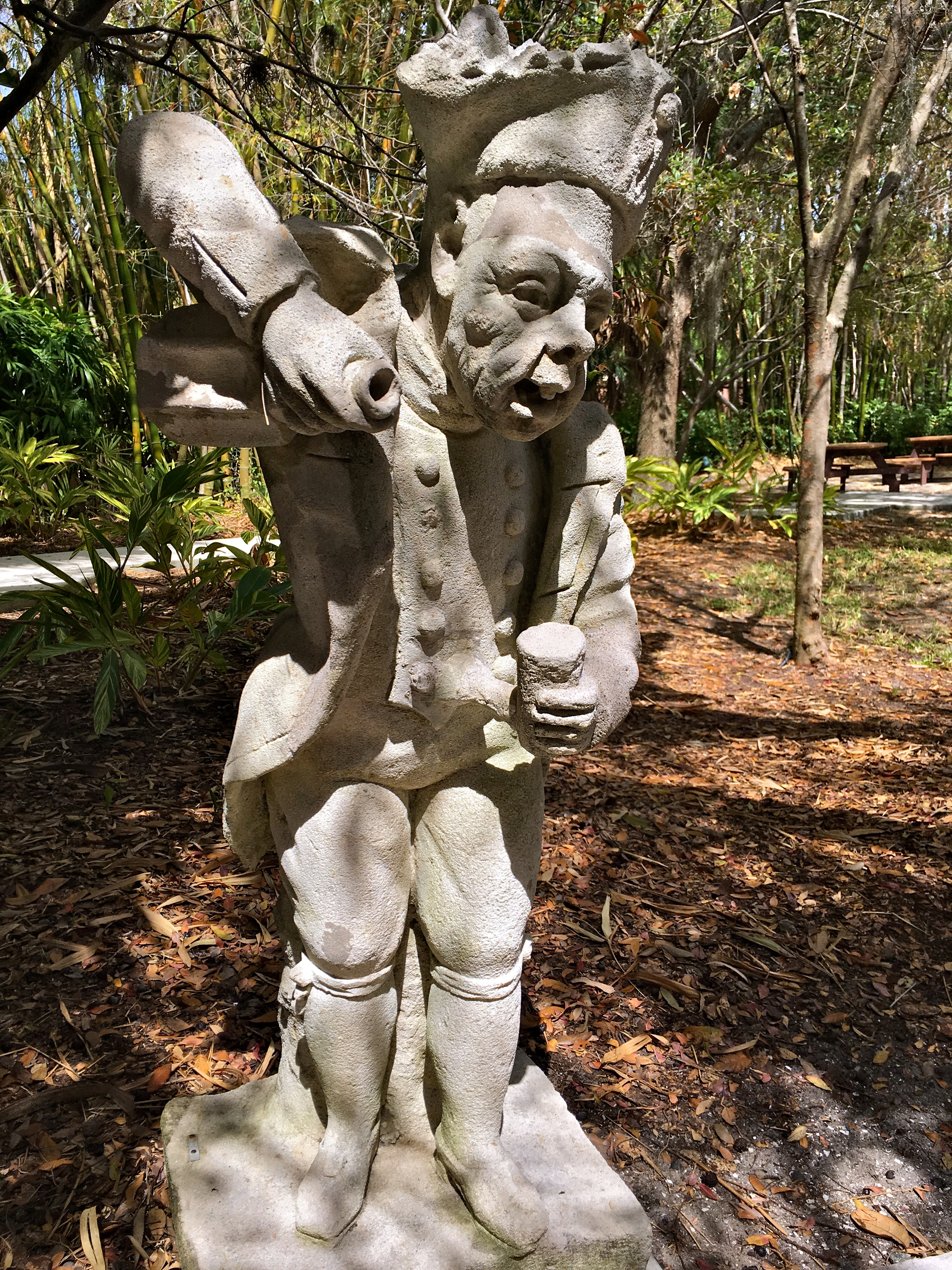 Stone gnomes found at the Dwarf Garden at The Ringling